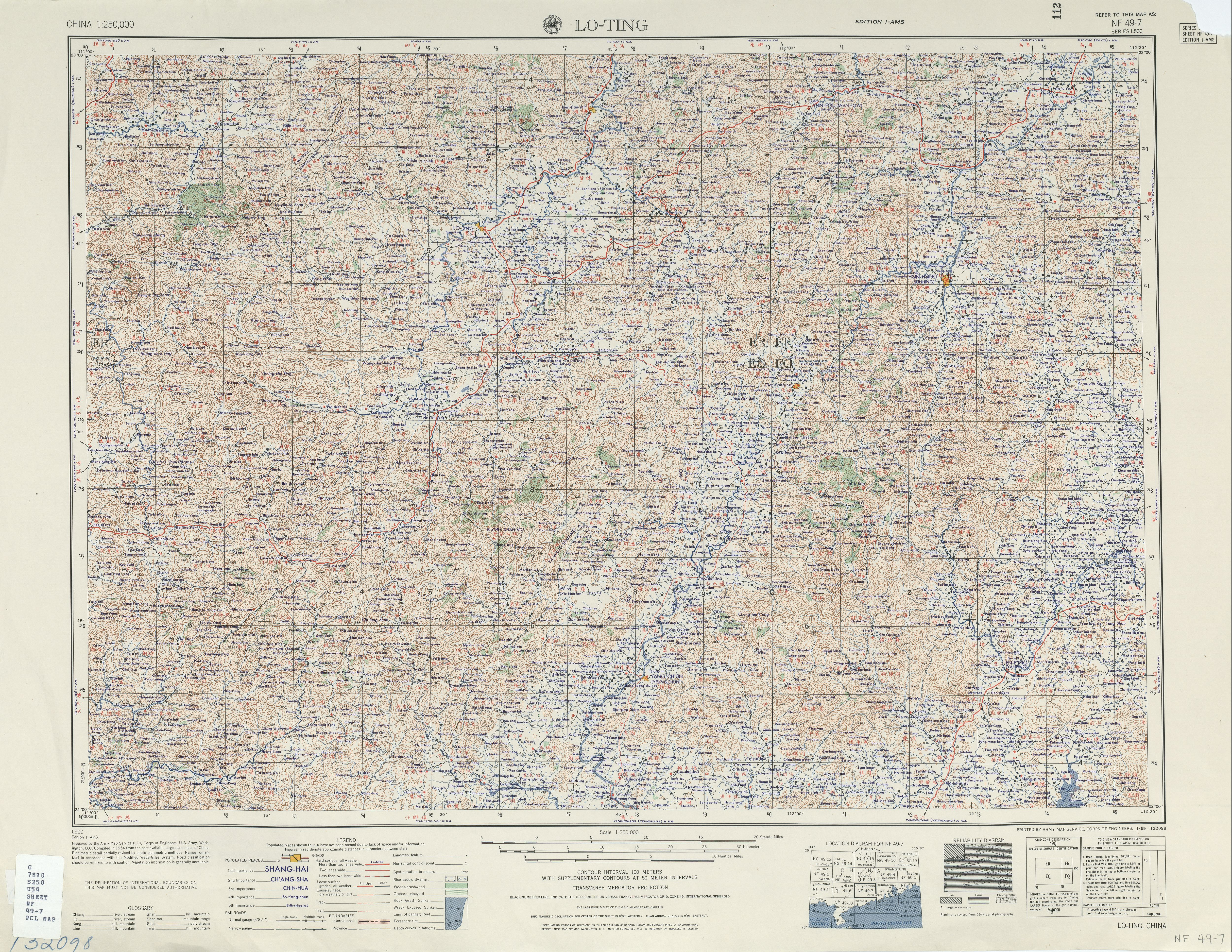 China AMS Topographic Maps